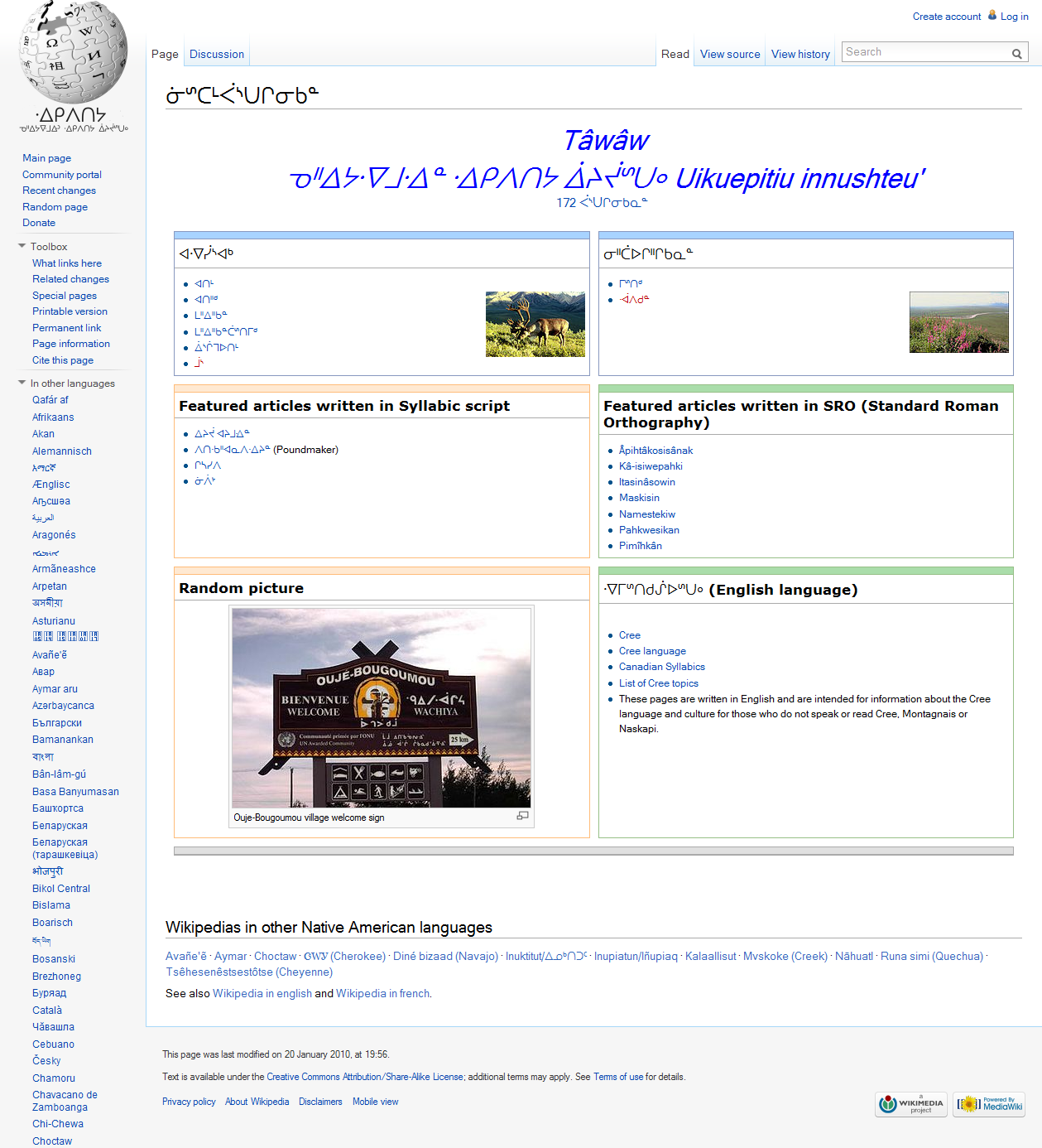 Cree Wikipedia screenshot